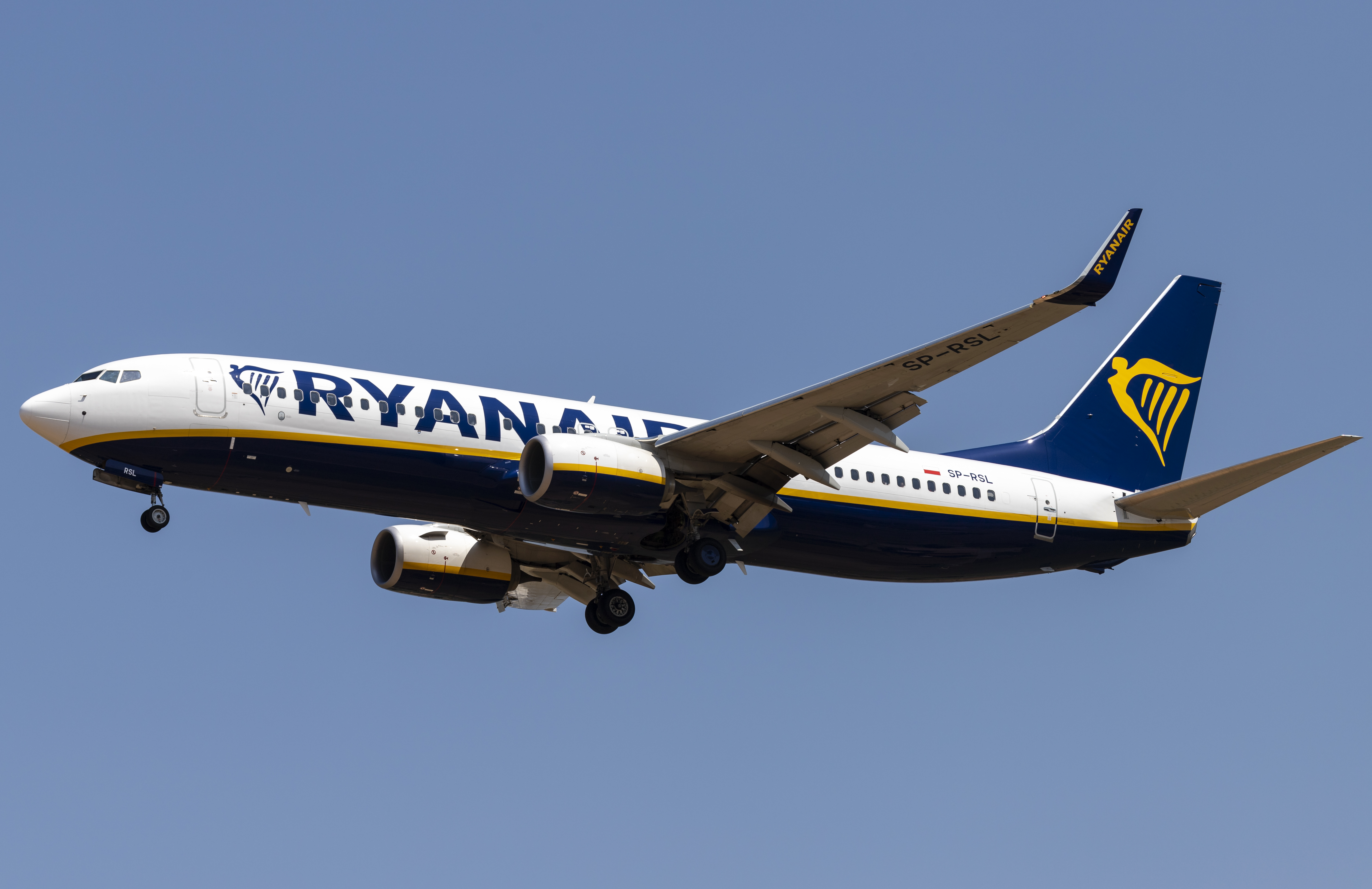 Palma de Mallorca/Son Sant Joan Airport, Boeing 737-800 (SP-RSL) of Polish Ryanair Sun / Buzz approaching runway 24L.